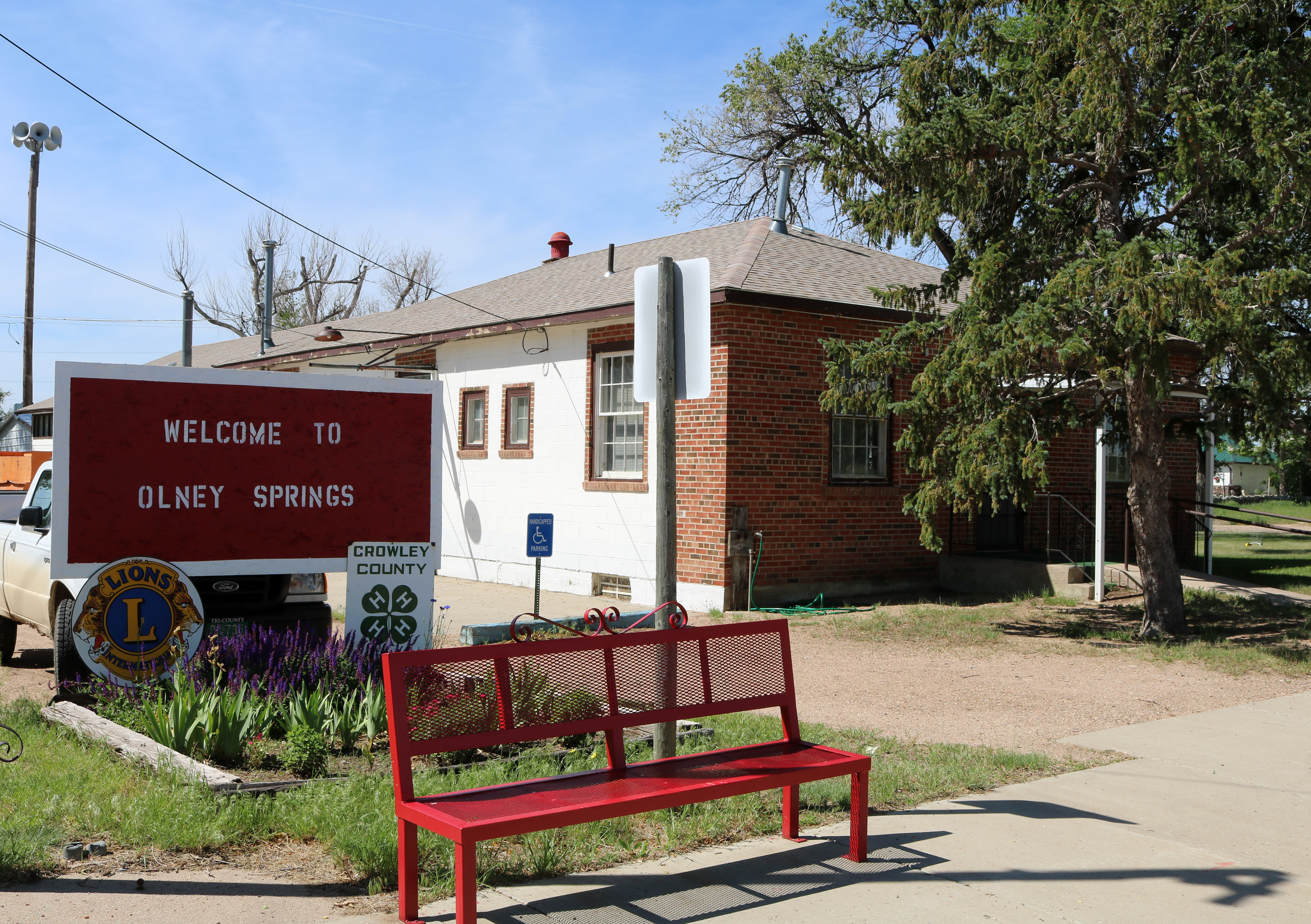 The town of Olney Springs, Colorado. The picture shows a welcome sign and the town Hall on Warner Avenue.